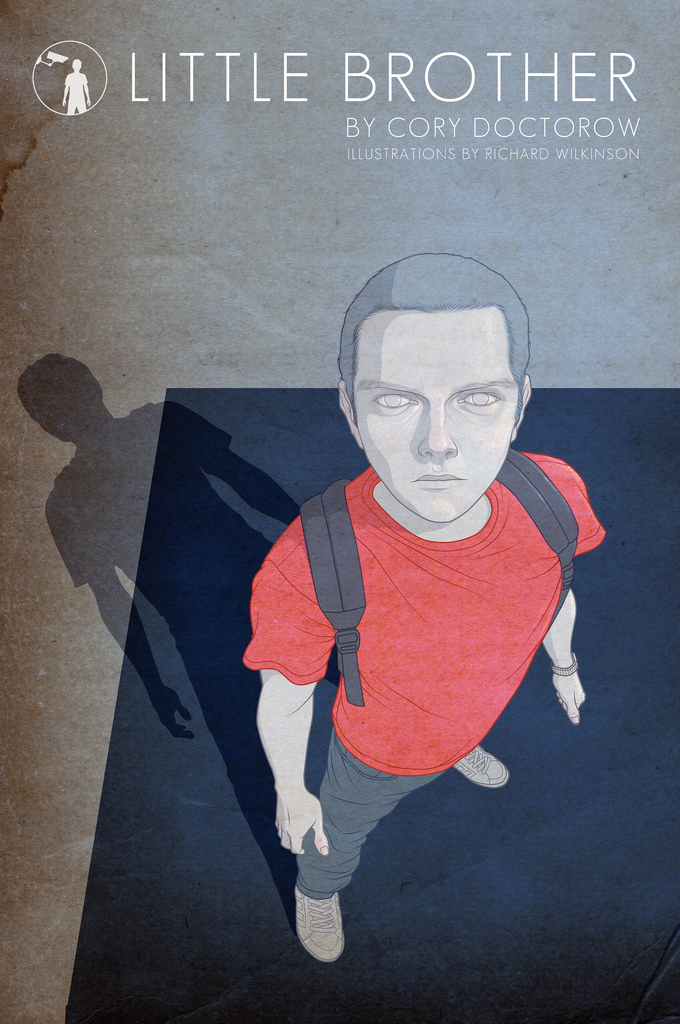 Richard Wilkinson original illustration for limited edition Little Brother (novel by Cory Doctorow) 01